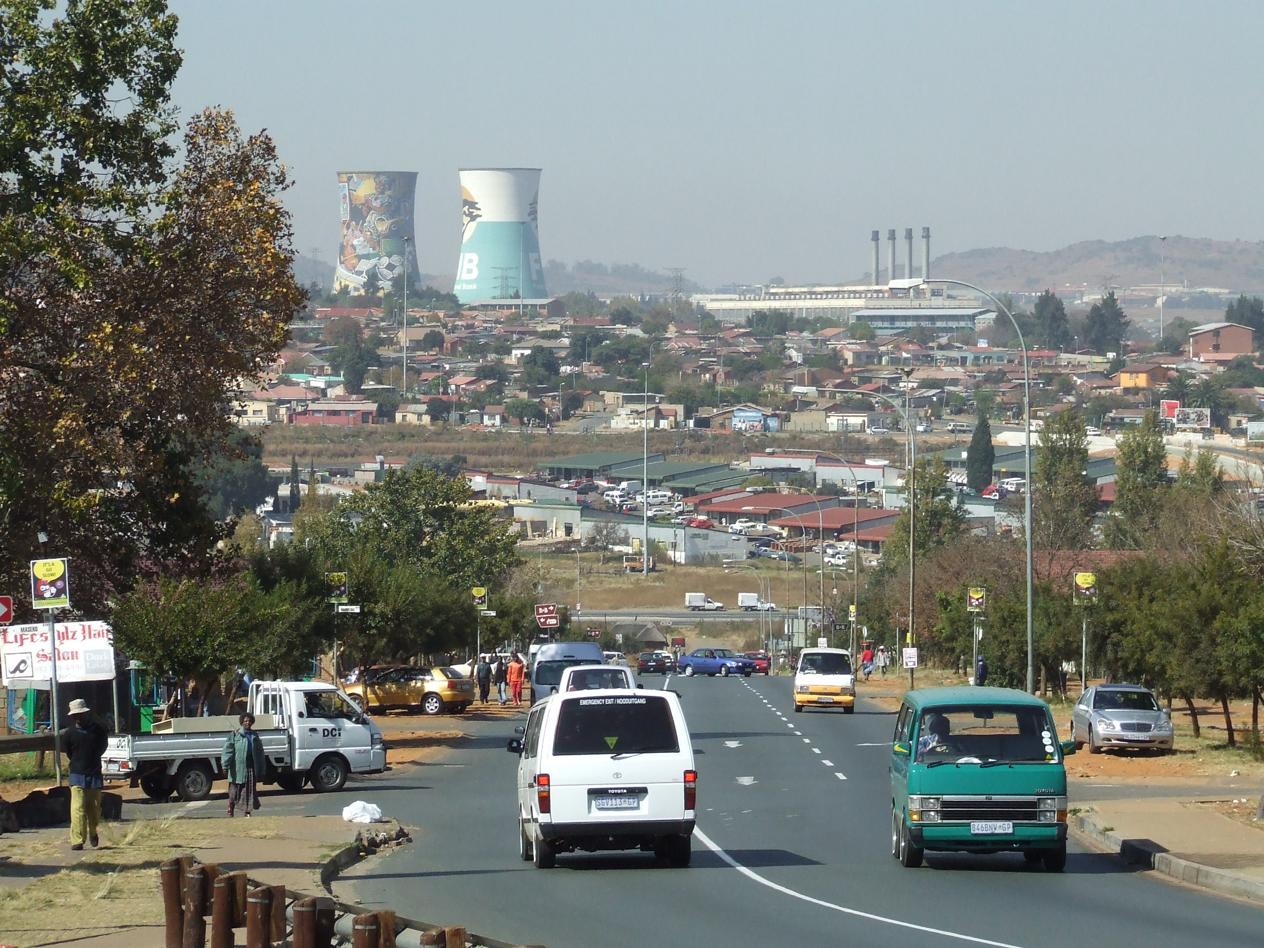 Taken from Hector Pietersen Memorial - View to cooling towers of power station filmed in TV series "Amazing Race"